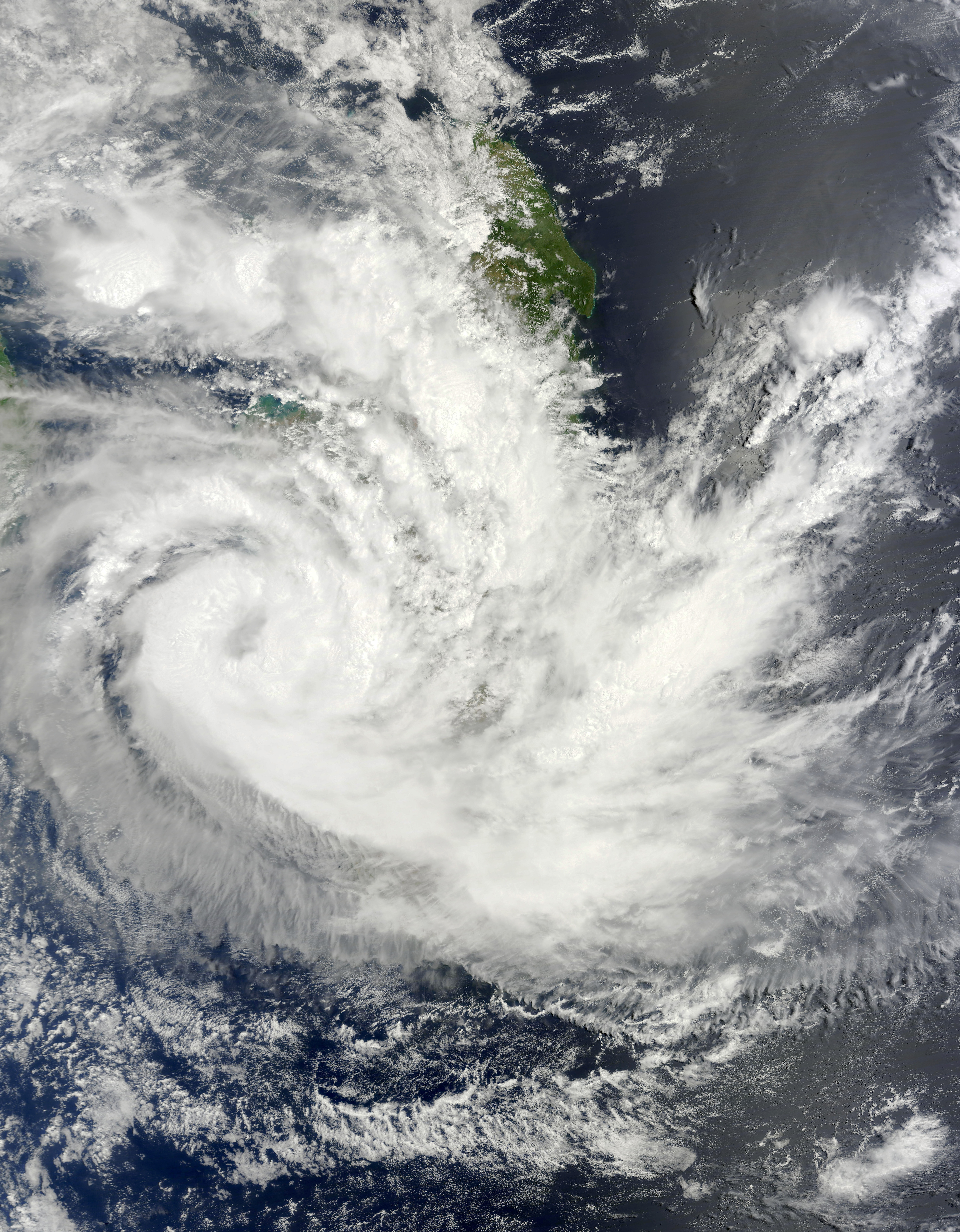 Severe Tropical Storm Chedza on January 16, 2015